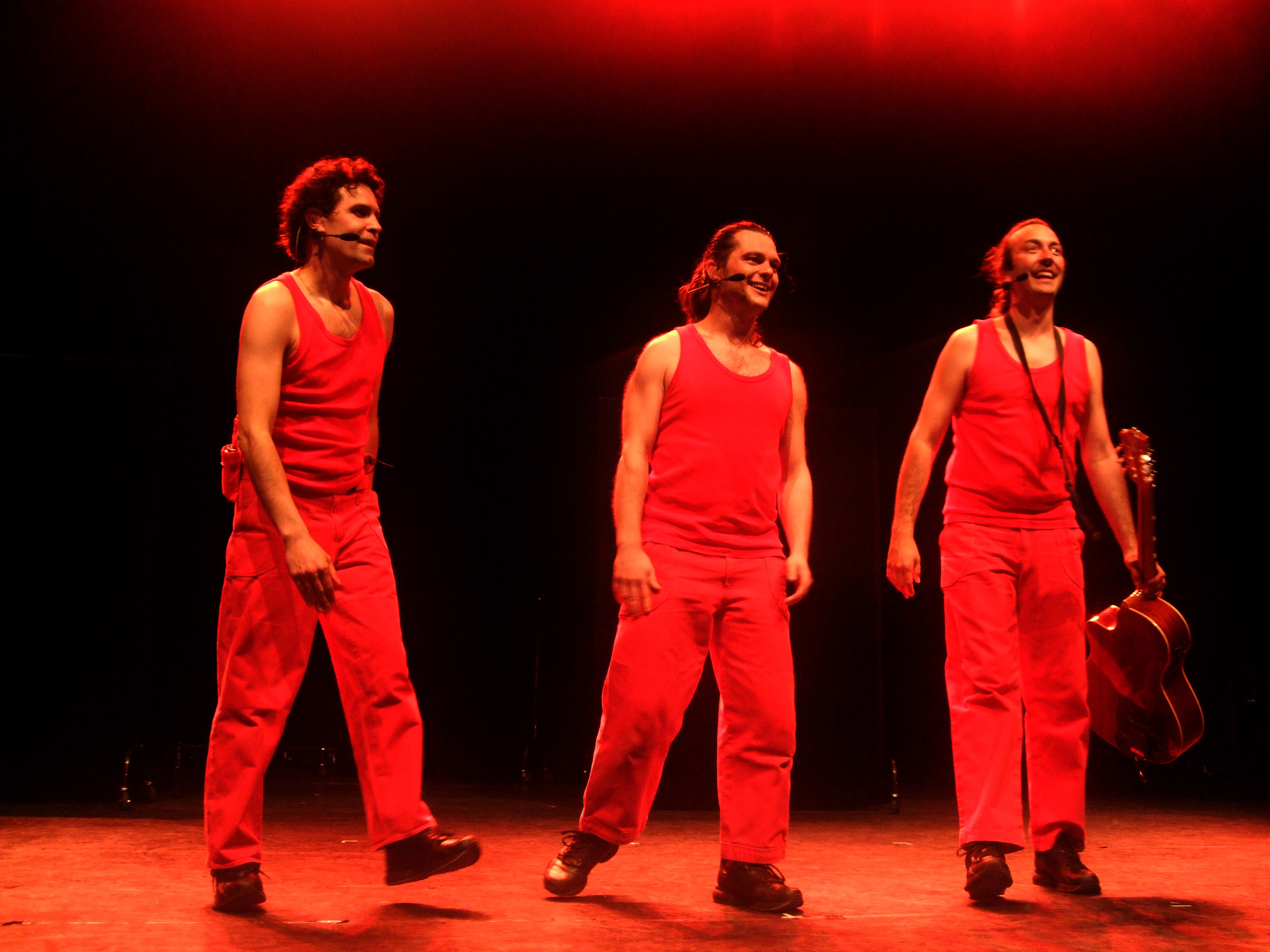 Les Wriggles in Clermont-Ferrand (France)